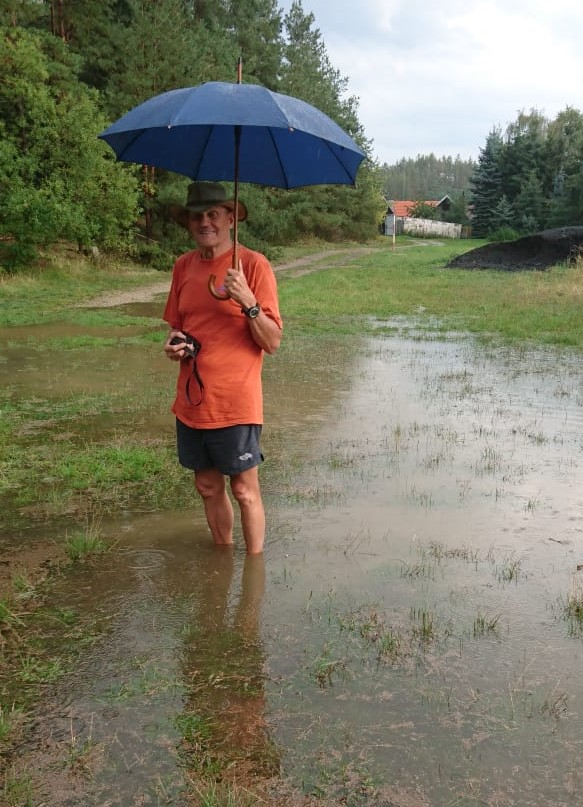 Mr. Bols, author of legendary obstacle track Bolscross.